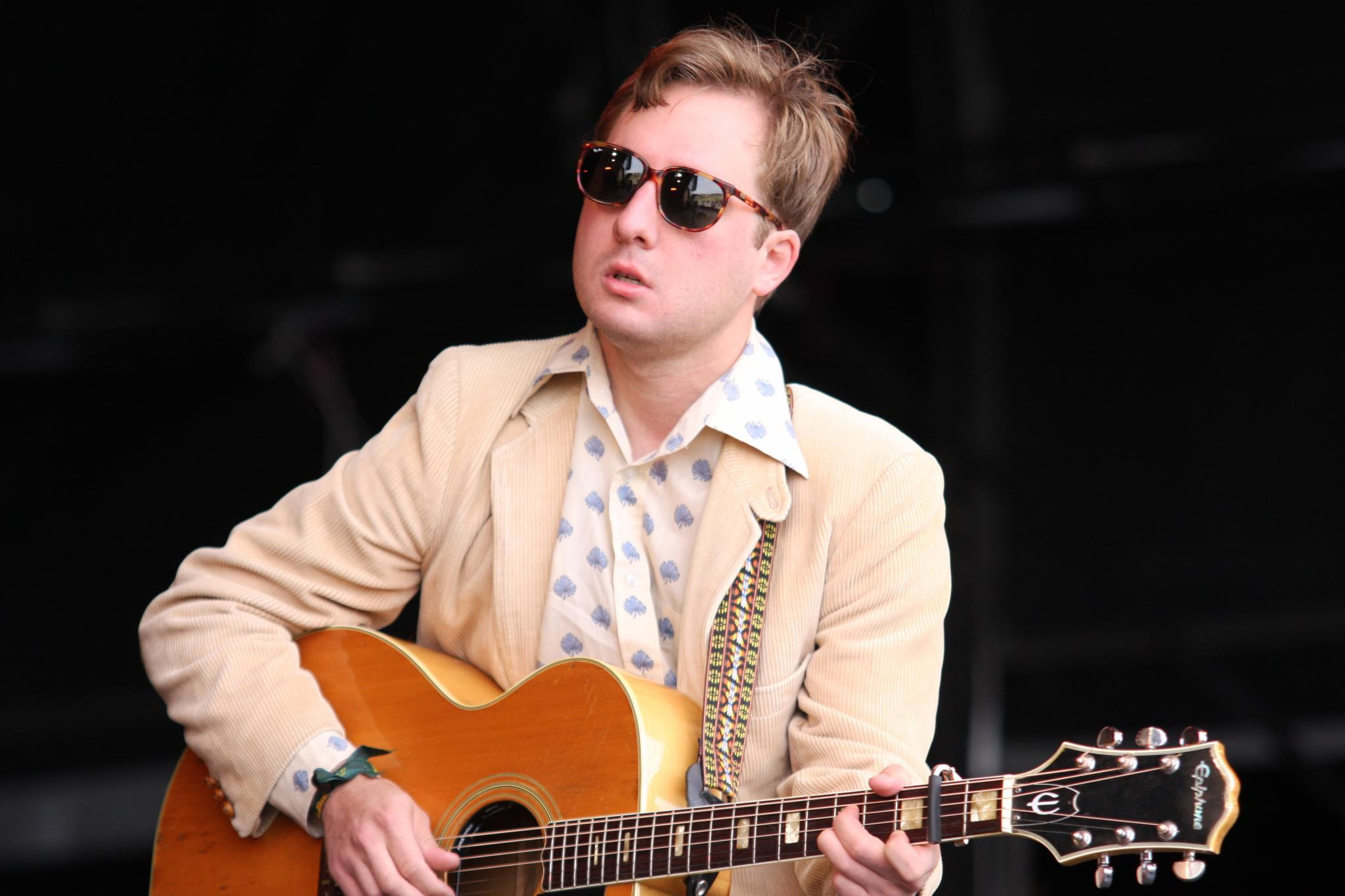 Matthew Milia of the Detroit, Michigan-based band Frontier Ruckus performing at End of the Road Festival in North Dorset, England on 1 September 2013.